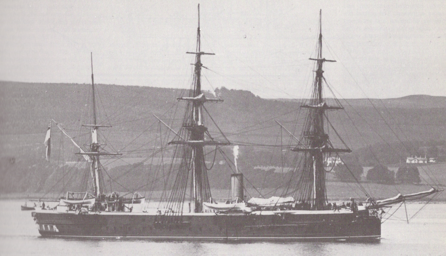 Photograph of British armoured cruiser HMS Shannon as she appeared after her 1881 refit.